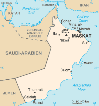 Map of Oman in German